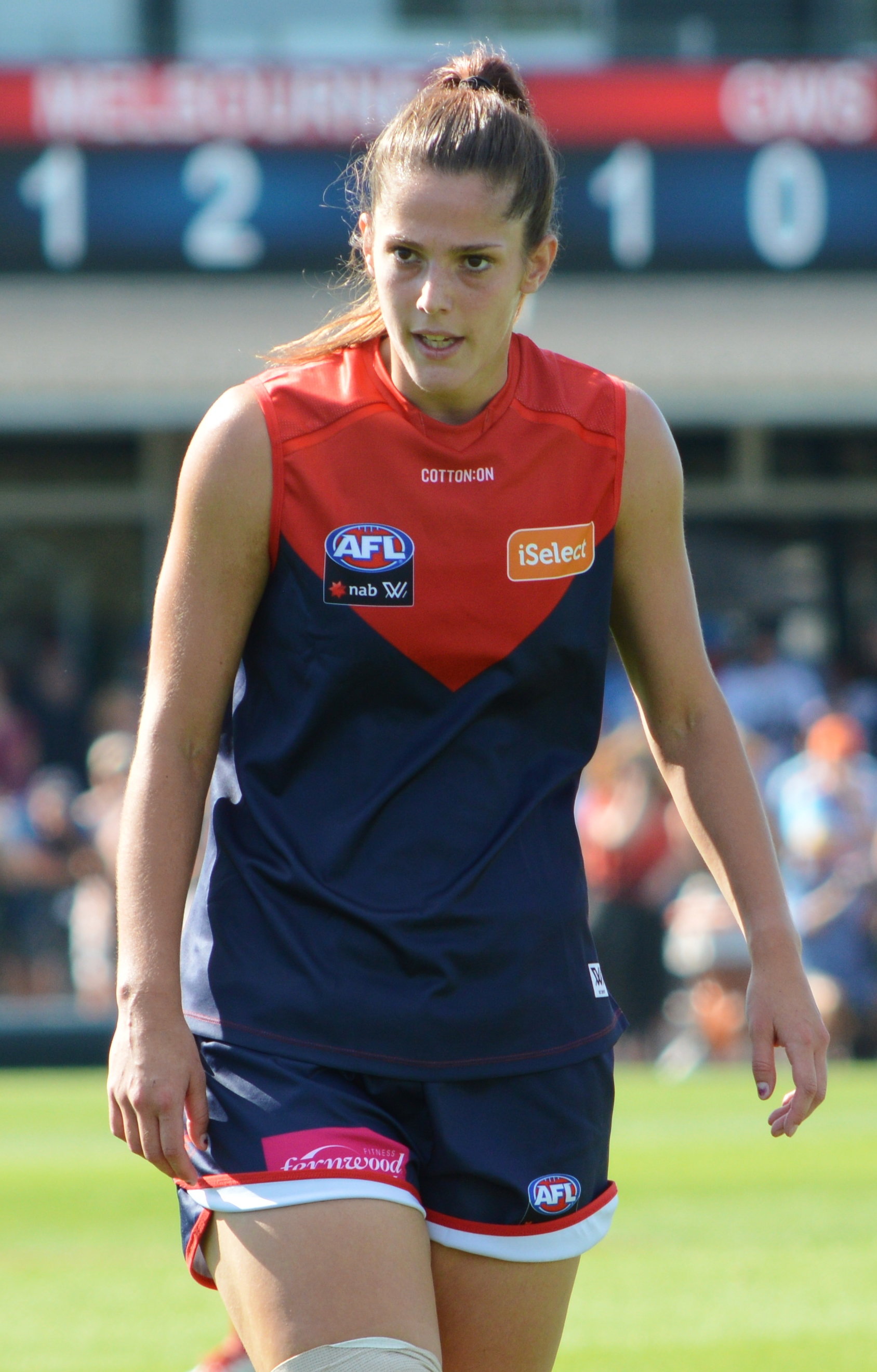 Lauren Pearce during the round 1, 2018 AFL Women's match between Melbourne and Greater Western Sydney.